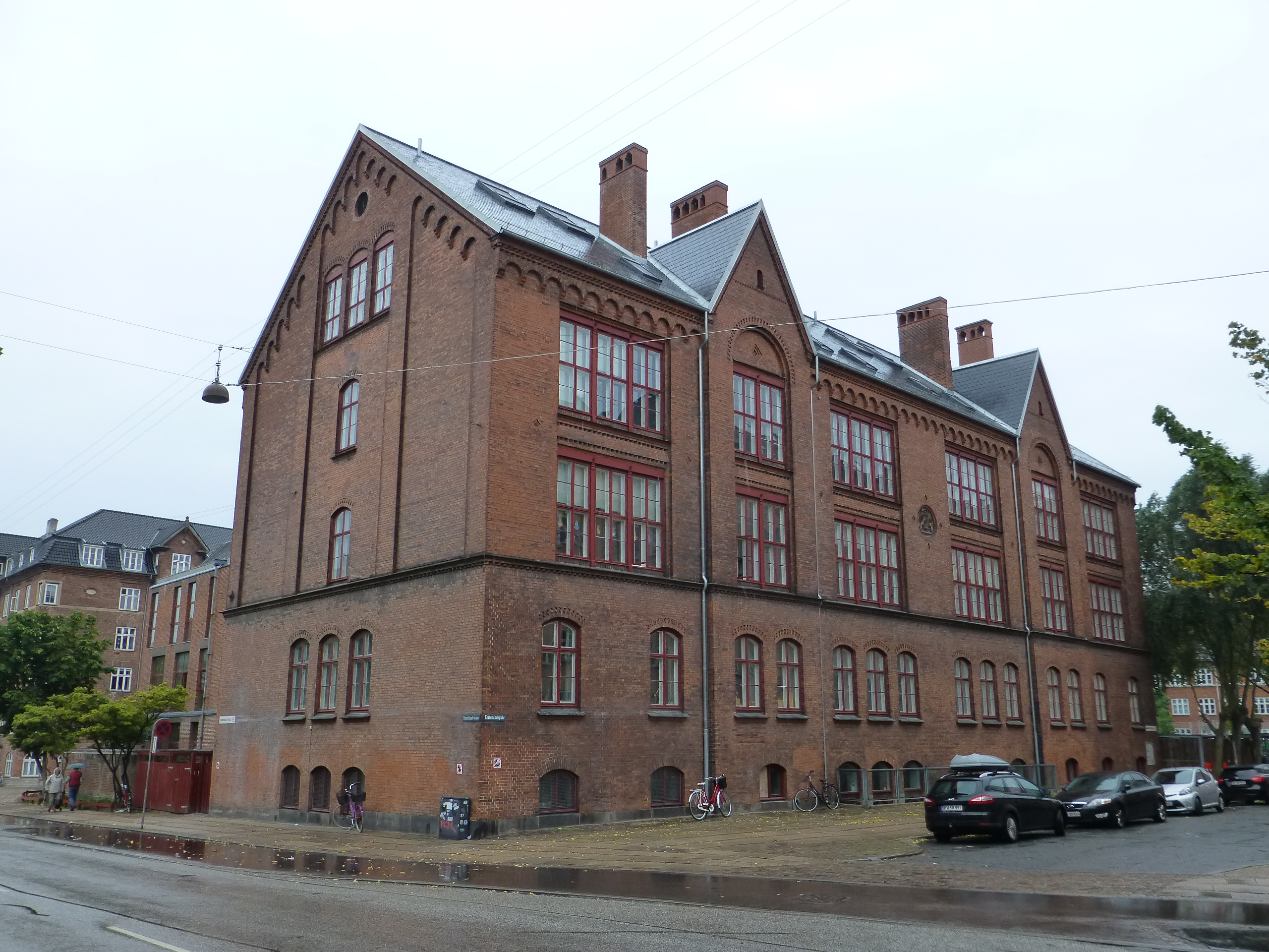 The school Vibenshus Skole at the corner of Strandboulevarden and Kertemindegade in Østerbro in Copenhagen.